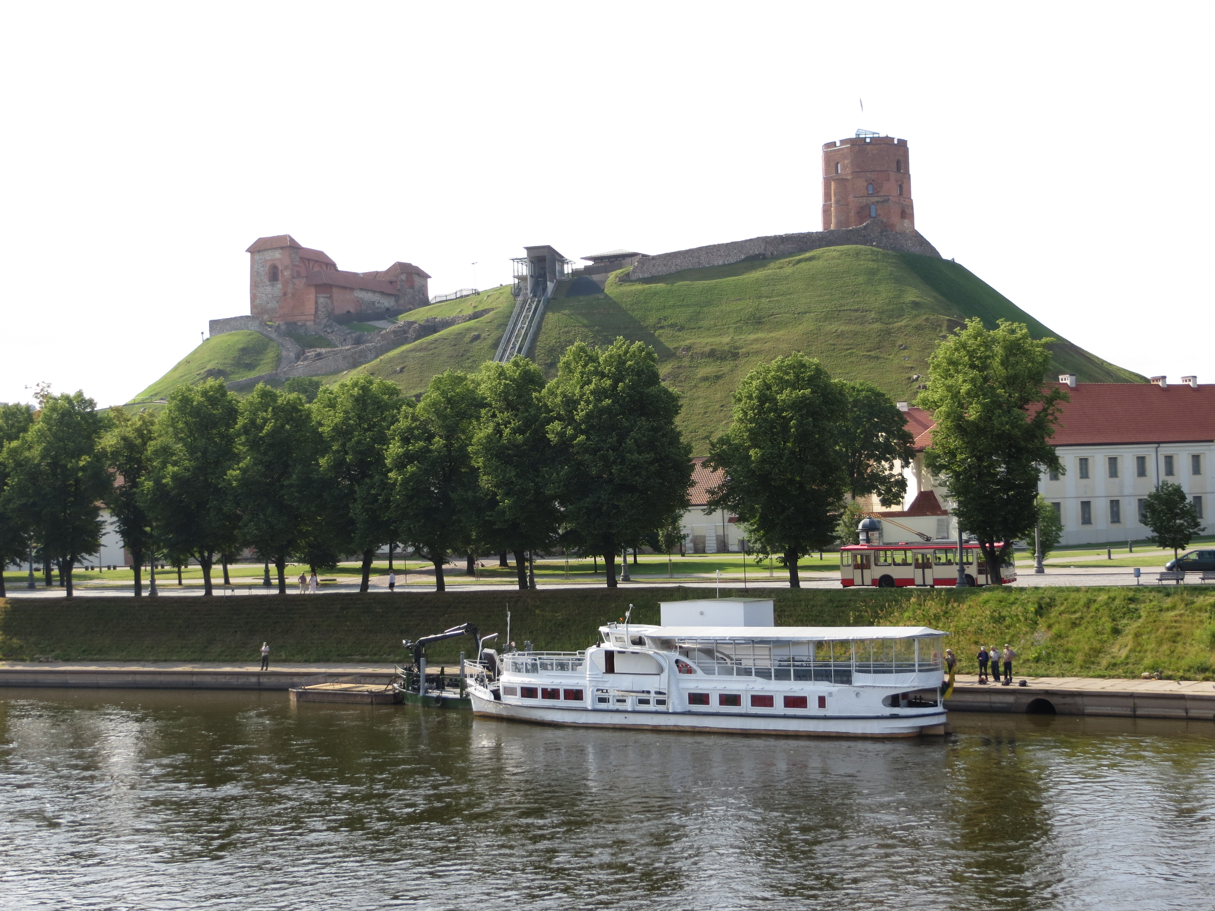 The Upper Castle in Vilnius, Lithuania, seen on Gediminas Hill across river Neris. Gediminas' Tower is the tall structure on the right while to the left (east) of the tower one can make out the ruins of the ducal palace. In 2003 a funicular to Gediminas' Hill opened up, it can be seen near the middle of the hill.